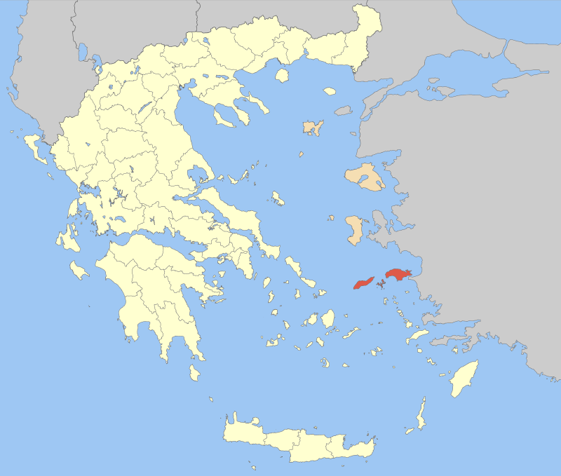 Locator map of Samos prefecture (Νομός Σάμου) in Greece